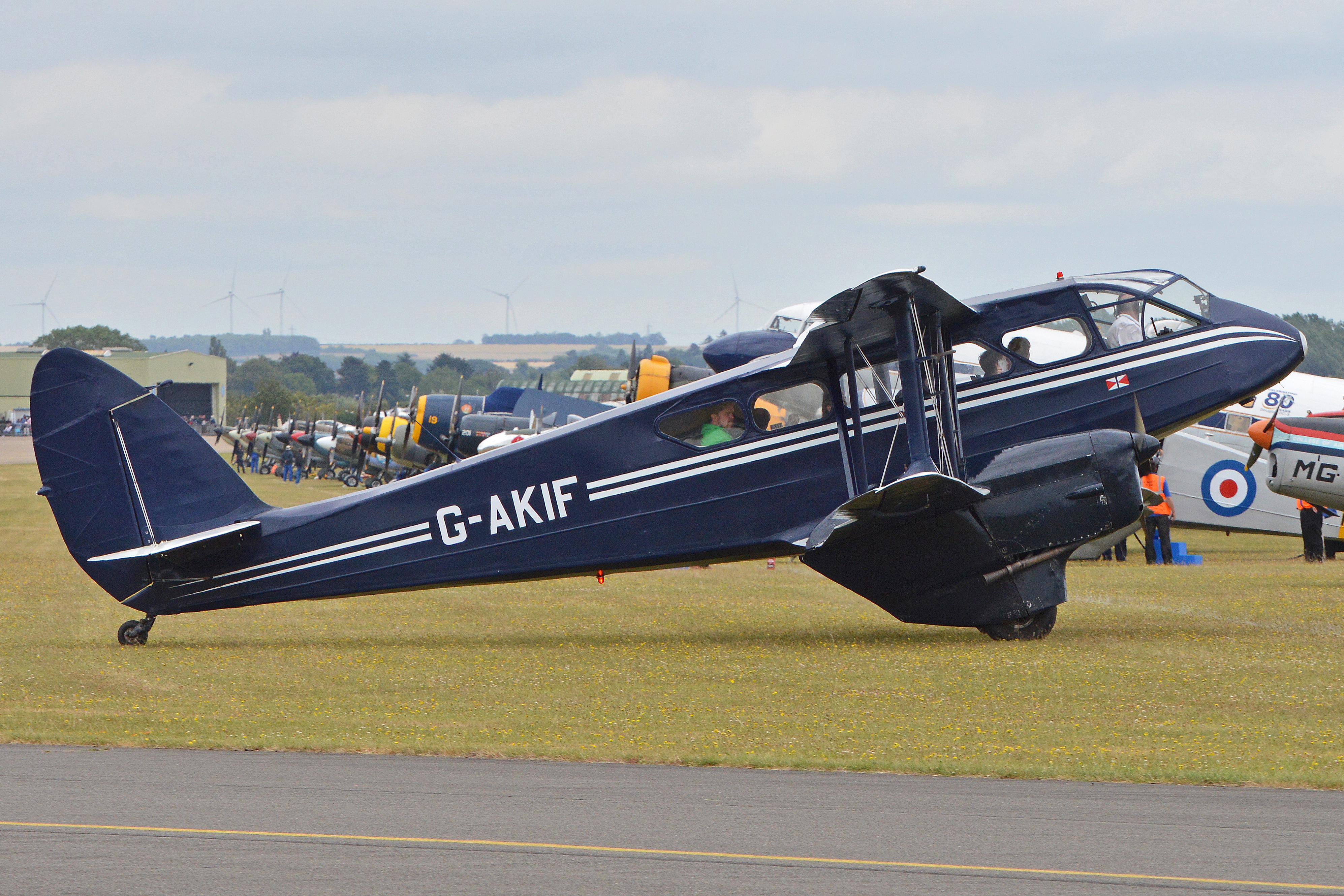 c/n 6838. Built 1944 with the UK military serial 'NR750'. Now in civil colours and seen taxiing out on a pleasure flight as part of the ‘Classic Wings’ operation. 2015 Flying Legends Airshow. Duxford, Cambridgeshire, UK. 12-7-2015